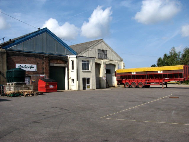 Units in Melton Constable Industrial Estate